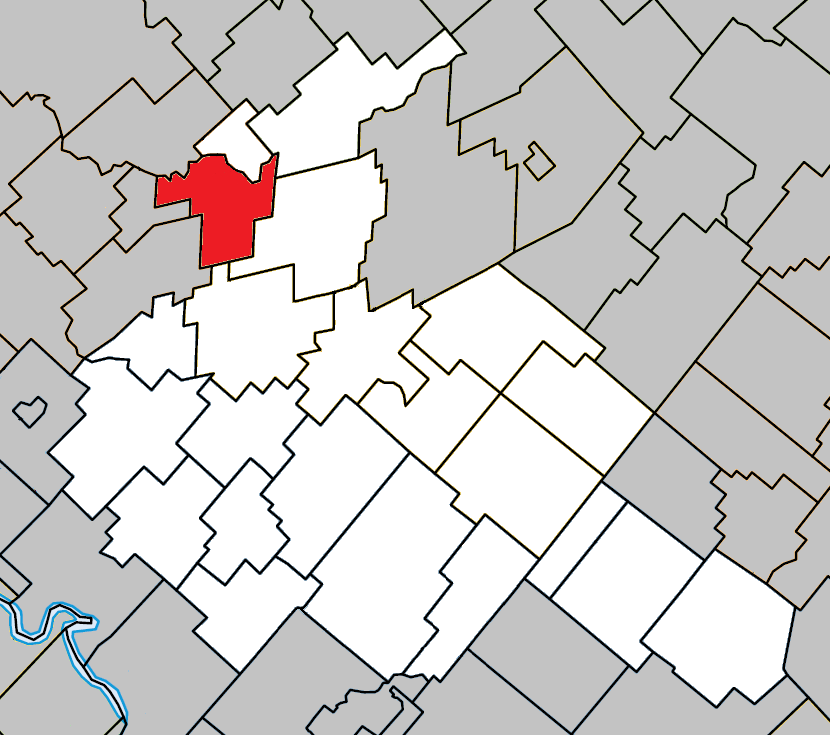 Location of Daveluyville, Quebec within Arthabaska Regional County Municipality.